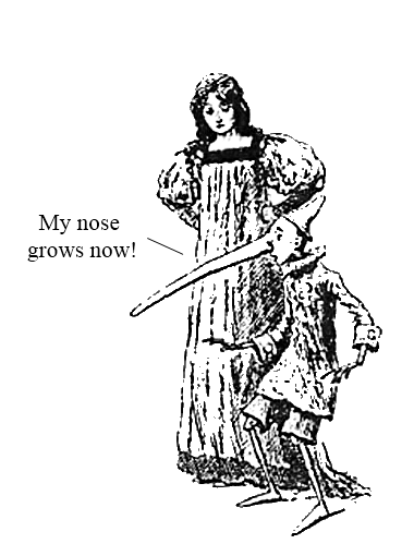 The Pinocchio paradox. When Pinocchio says "My nose grows now" it creates a Liar sentence and makes Pinocchio's nose grow if and only if it does not grow.